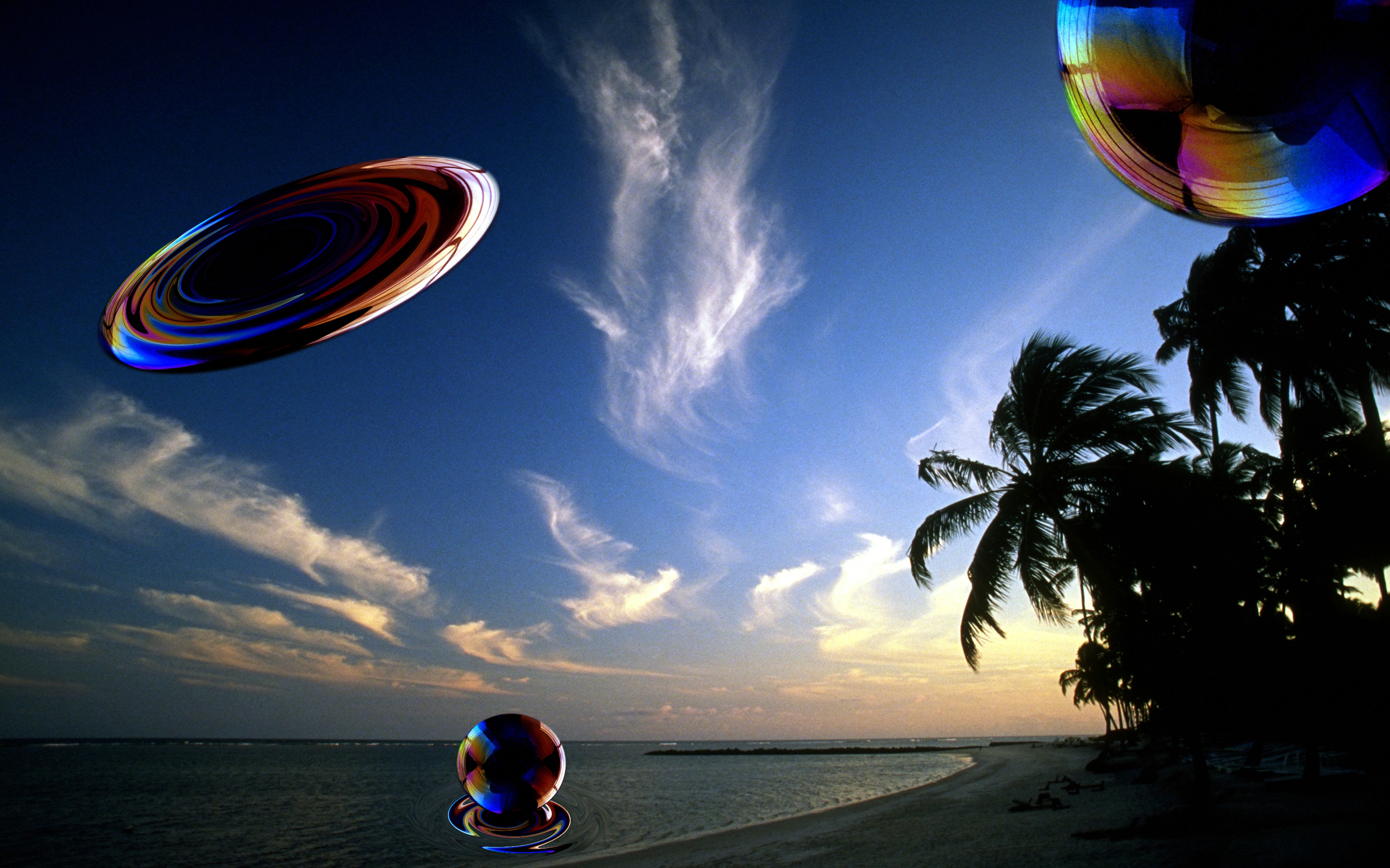 A pollution abstracts Analog image from 1984, digital manipulation 1995